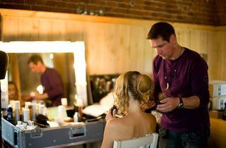 Laurent Caille en préparation loge, docu-fiction Darwin (R)Evolution , de Philippe Tourancheau